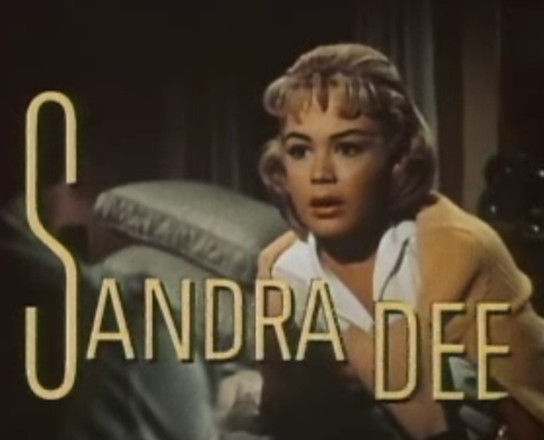 Cropped screenshot of Sandra Dee from the trailer for the film Imitation of Life (1959).